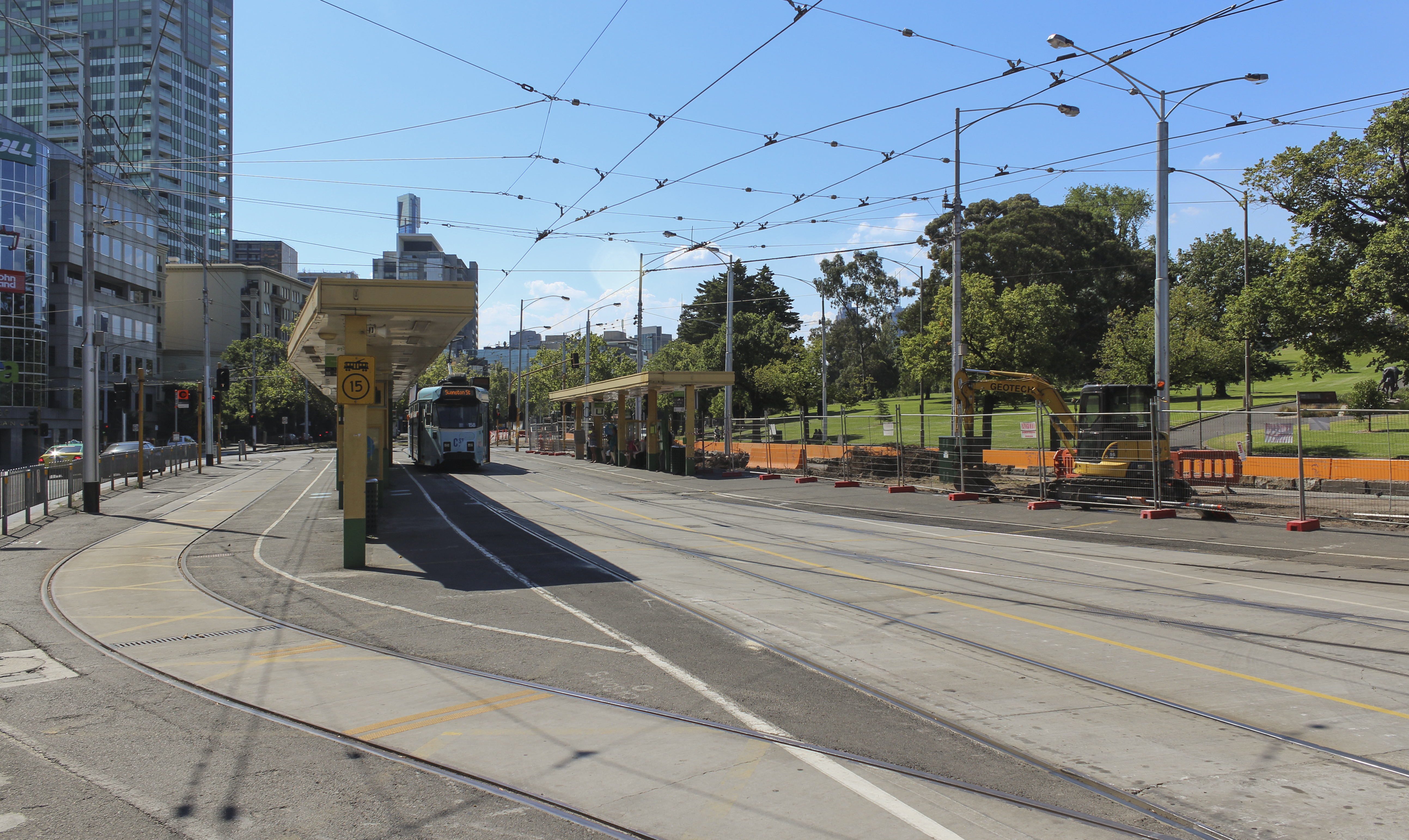 Z3 158 (Melbourne tram) at Domain Interchange during works preliminary to the redevelopment, April 2013